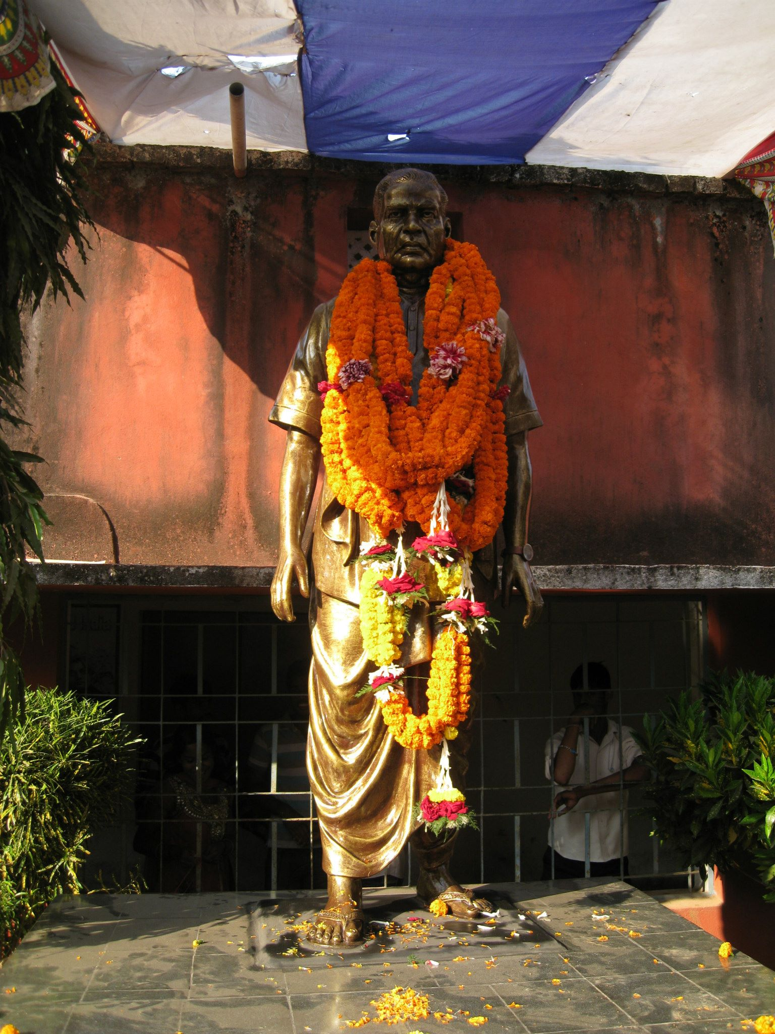 Image is taken on the day inaugurated the statue of Managobinda Samal at Sahaspur College, Balichandrapur, Jajpur, Odisha.